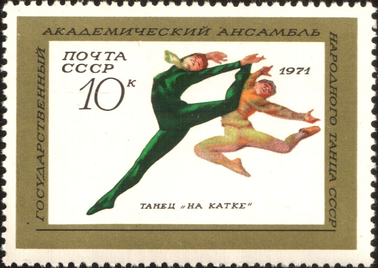 USSR stampː On the Ice Skating Rink Ballet (Strauss's Music) (see Russian Wikipedia). Seriesː Ensemble of Folk Dance of Igor Moiseyev (Founded 1937.02.10)